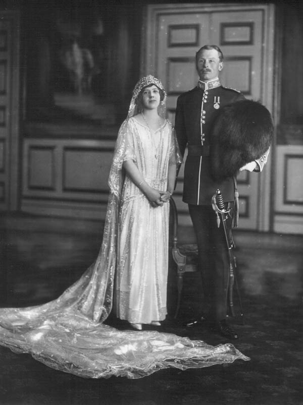 Wedding portrait of Princess Maud (Alexandra Victoria Bertha), Countess of Southesk (1893-1945), née Lady Maud Duff, grand-daughter of King Edward VII; Charles Alexander Carnegie, 11th Earl of Southesk (1893-1992)..